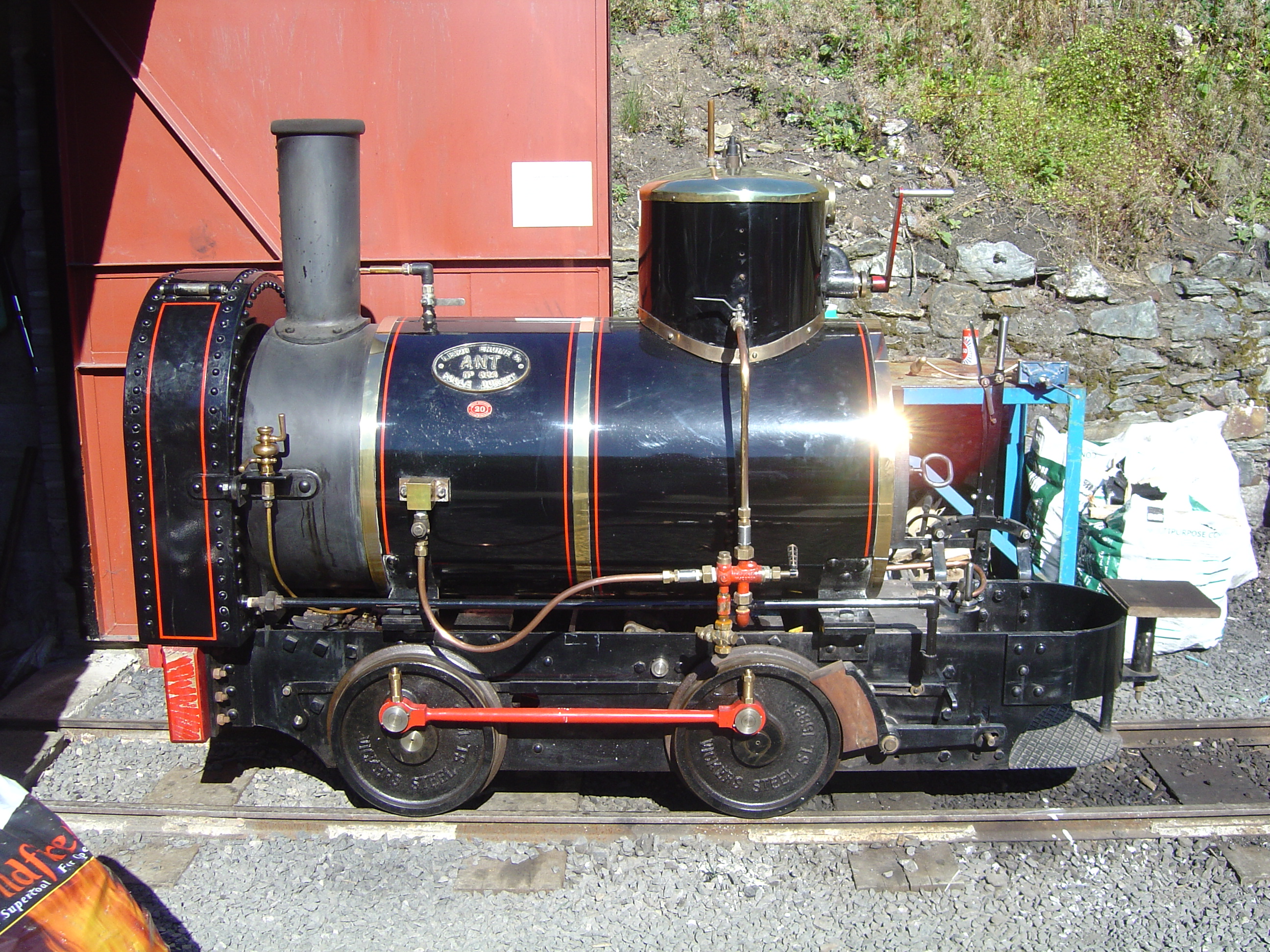 Locomotive Ant on the Great Laxey Mine Railway, Isle of Man